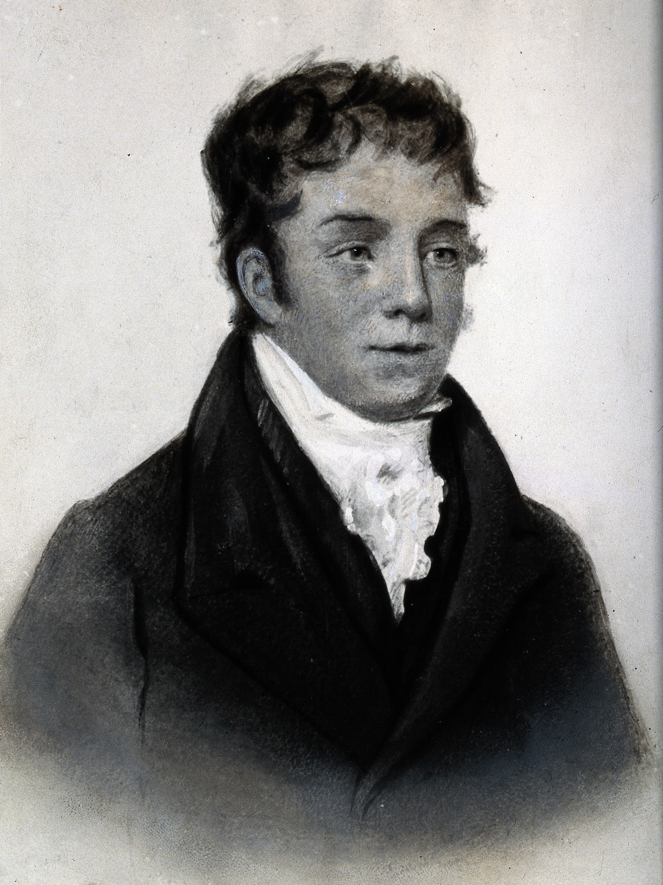 John William Turner. Photograph after a drawing. Iconographic Collections Keywords: portrait photographs